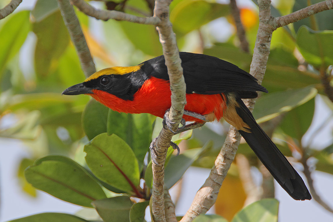 An attractive but skulking Bush-shrike which sings duets. Image taken in Mangrove swamp at Makasutu, The Gambia.